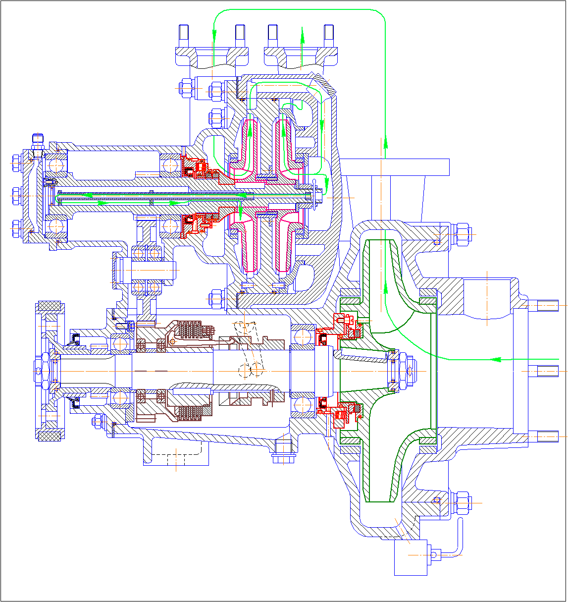 Комбинированный пожарный насос 40 100 4 400